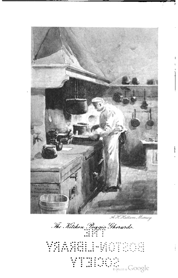 Illustration of the kitchen at poggio gherardo